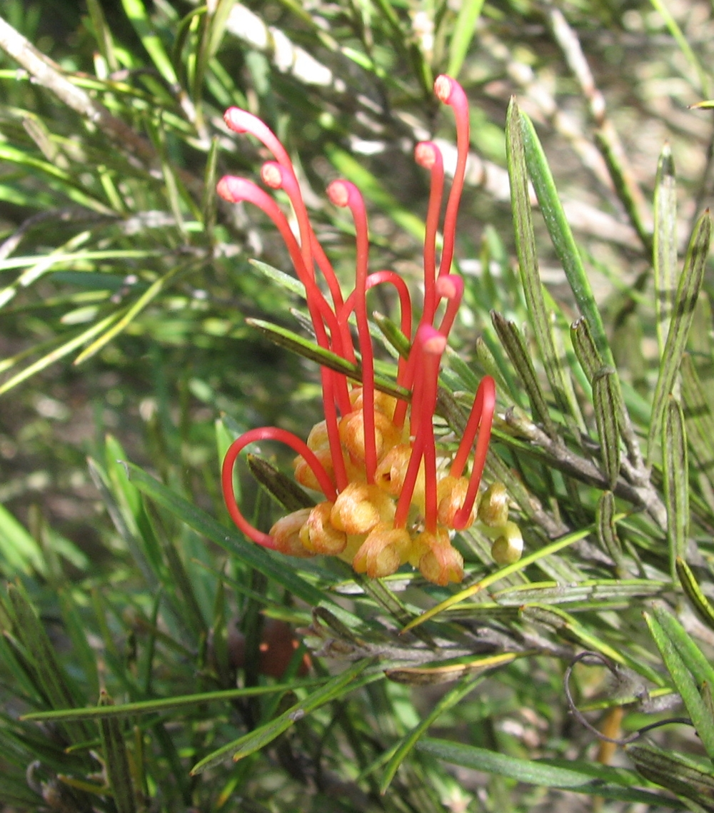 Grevillea concinna (cultivated, labelled) Maranoa Gardens, Balwyn, Victoria, Australia